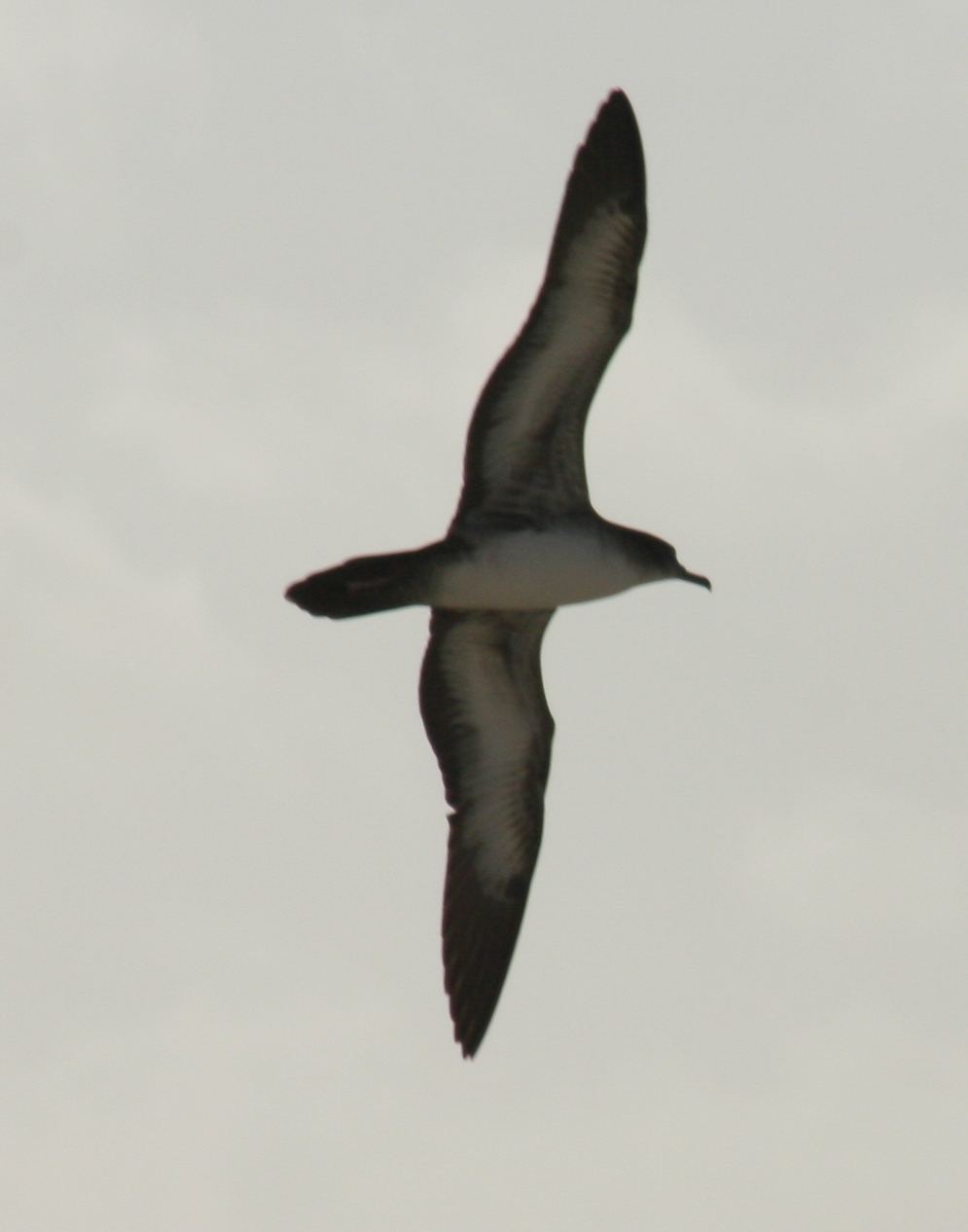 Wedge-tailed Shearwater (Puffinus pacificus) classic profile in flight